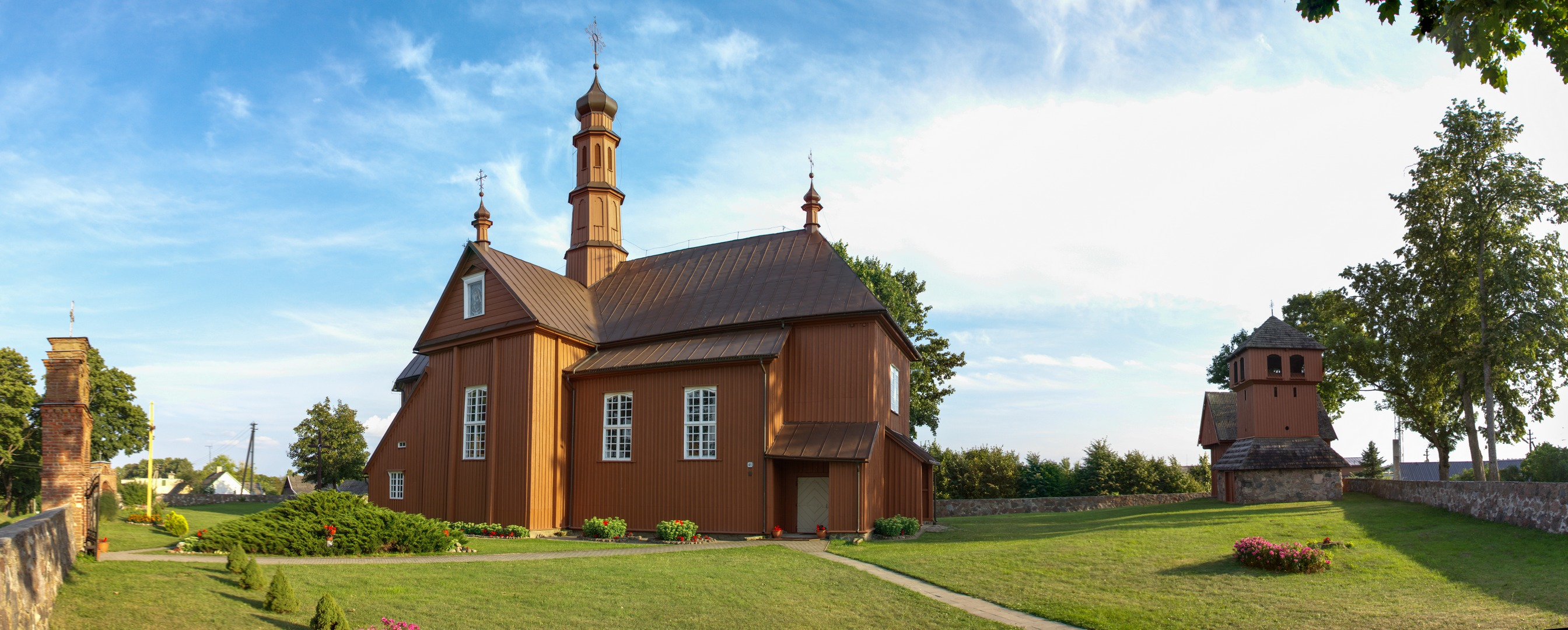 Lioliai church (2013)